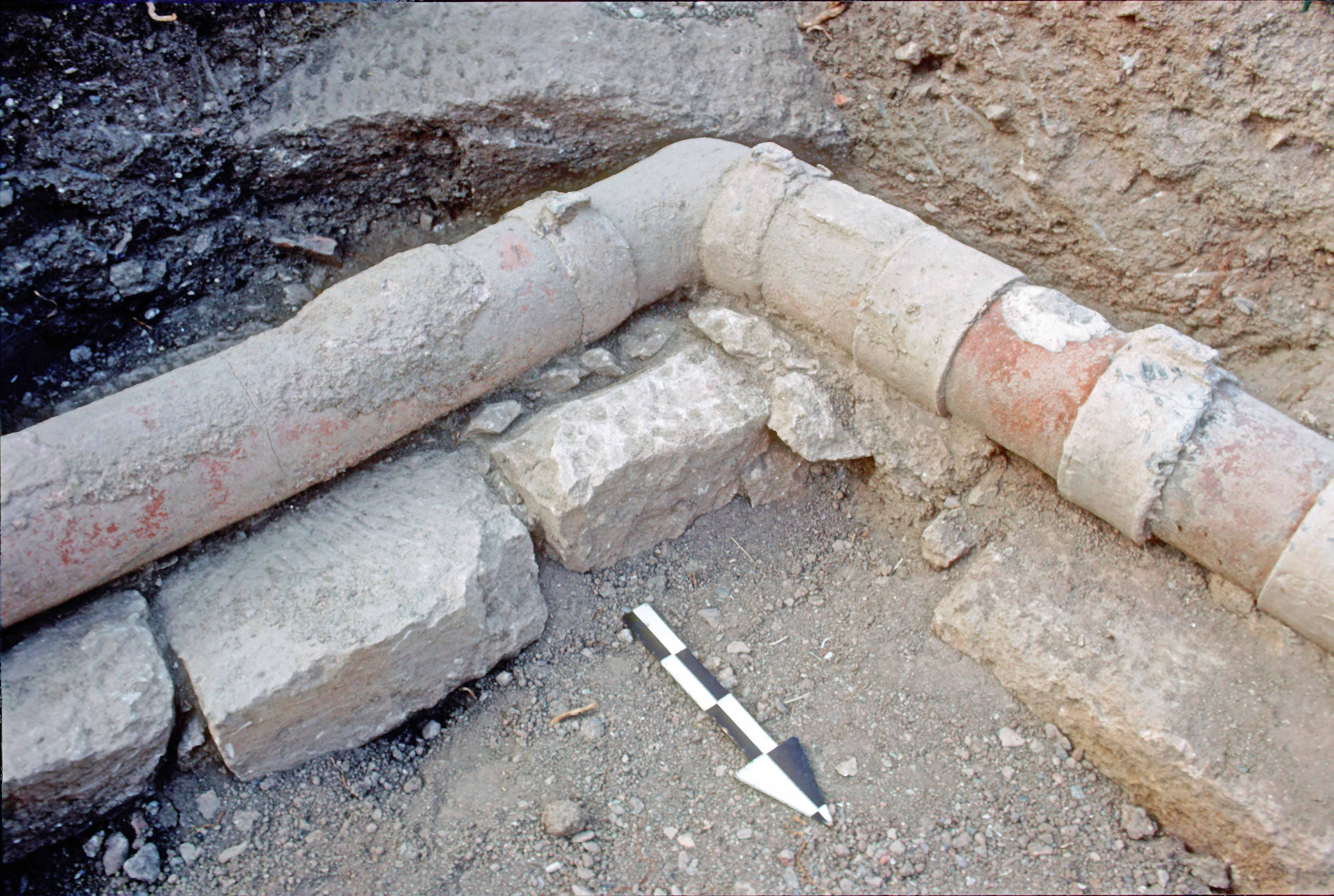 Eretria. Detail of the elbow seen from the inside.